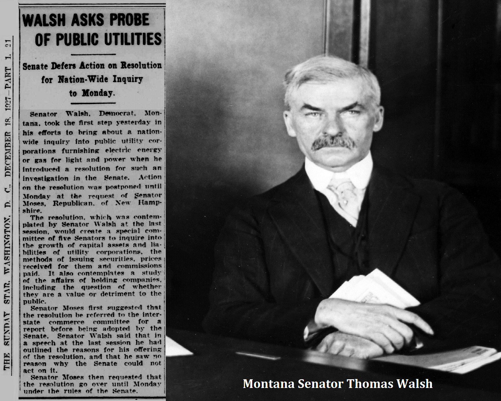 Image of Senator Walsh and Washington D.C. Sunday Star article announcing resolution to do a Senate probe of the U.S. Electric Industry December 18th, 1927